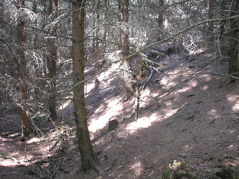 Early Middle Ages hill fort near Schorn (Pöttmes, Landkreis Aichach-Friedberg, Bavaria, Germany). The eastern earthworks, seen from the west